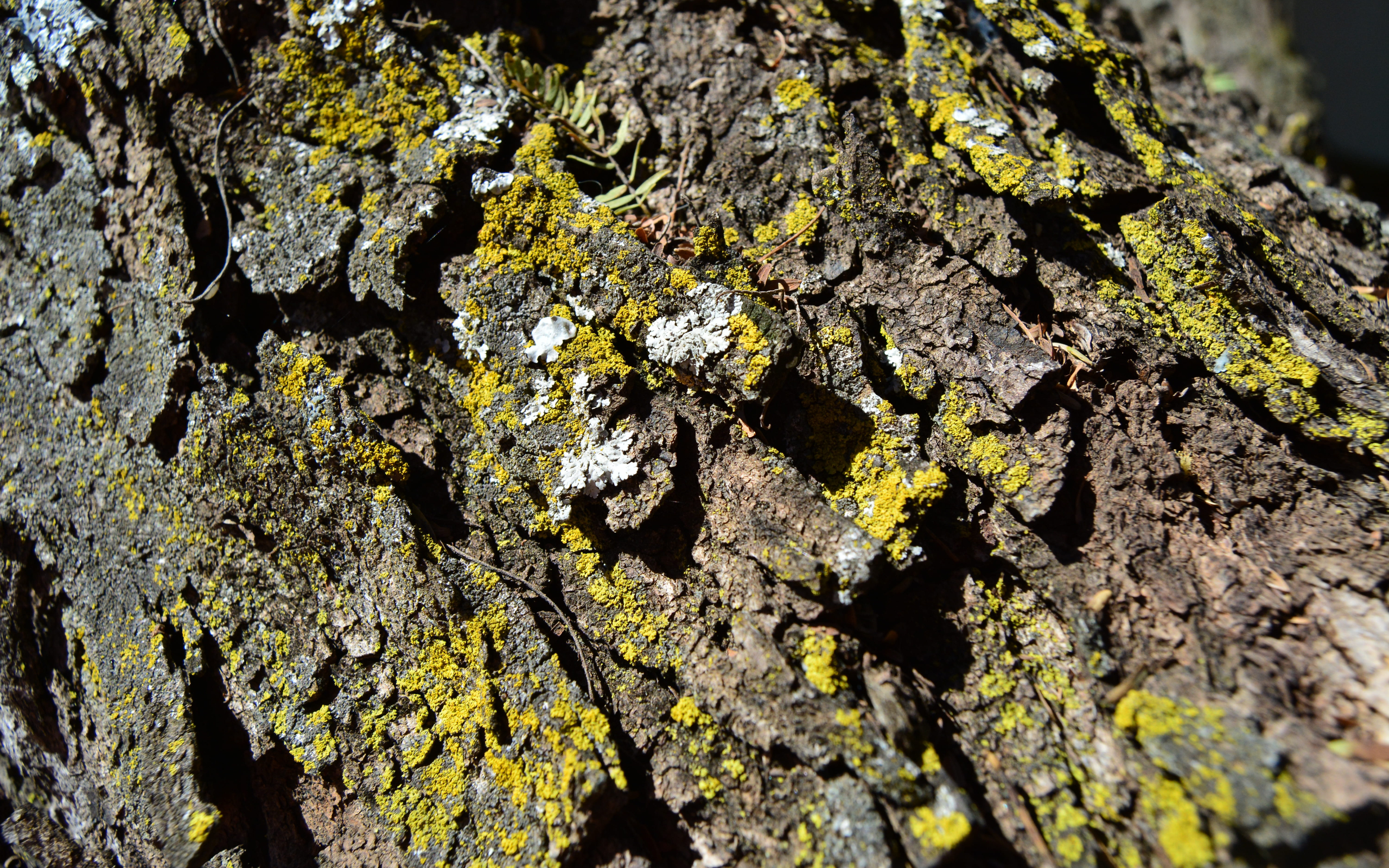 A photo of leprose lichen growing on acacia bark.